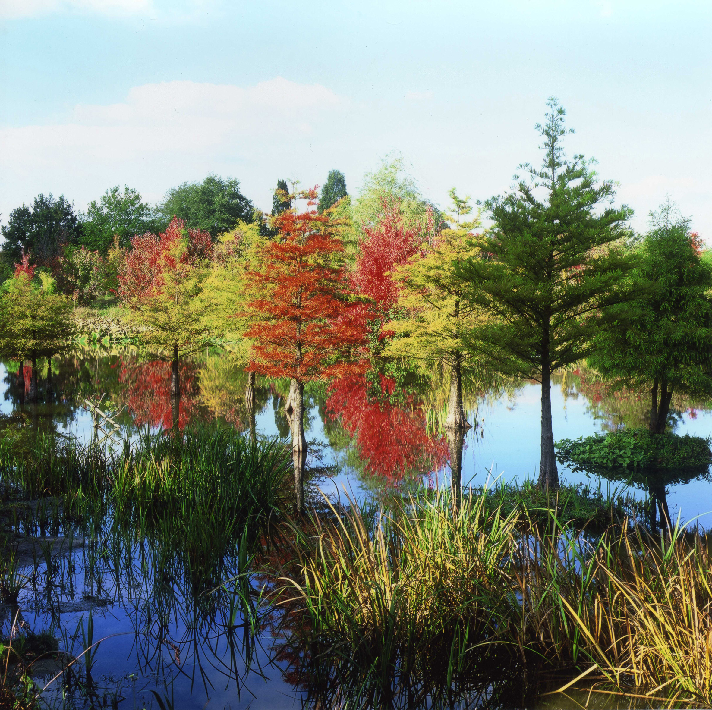 Autumnal Baldcypresses (Taxodium distichum) in the pond of the Arboretum Ellerhoop, Schleswig-Holstein, Germany